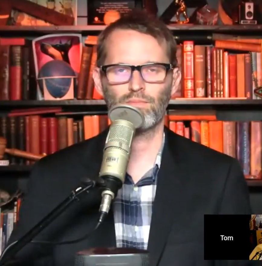 Tom Merritt during his Daily Tech News Show video podcast on January 31, 2018.